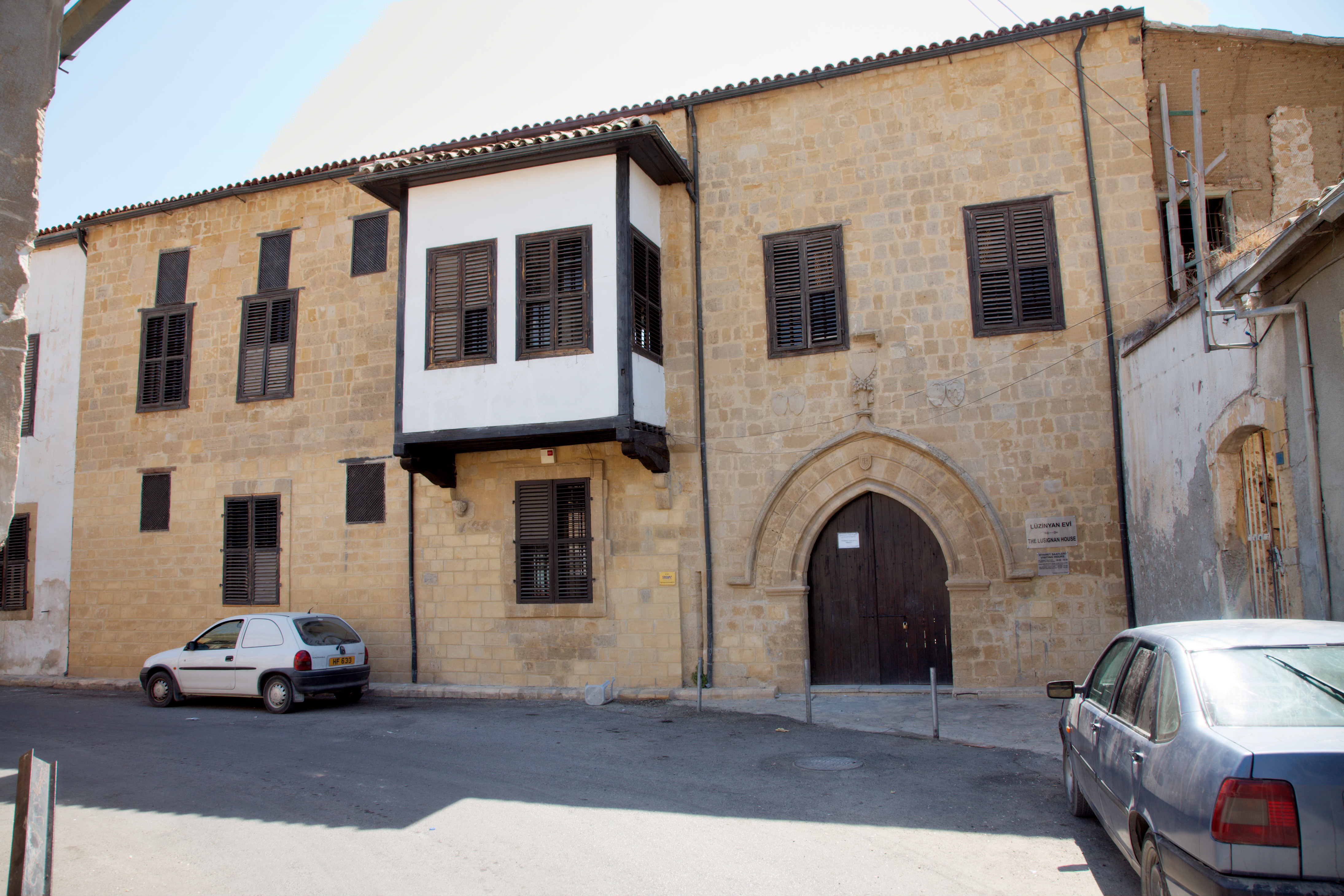 House of Lusignan in Nicosia (nothern part) House of Lusignan in Nicosia